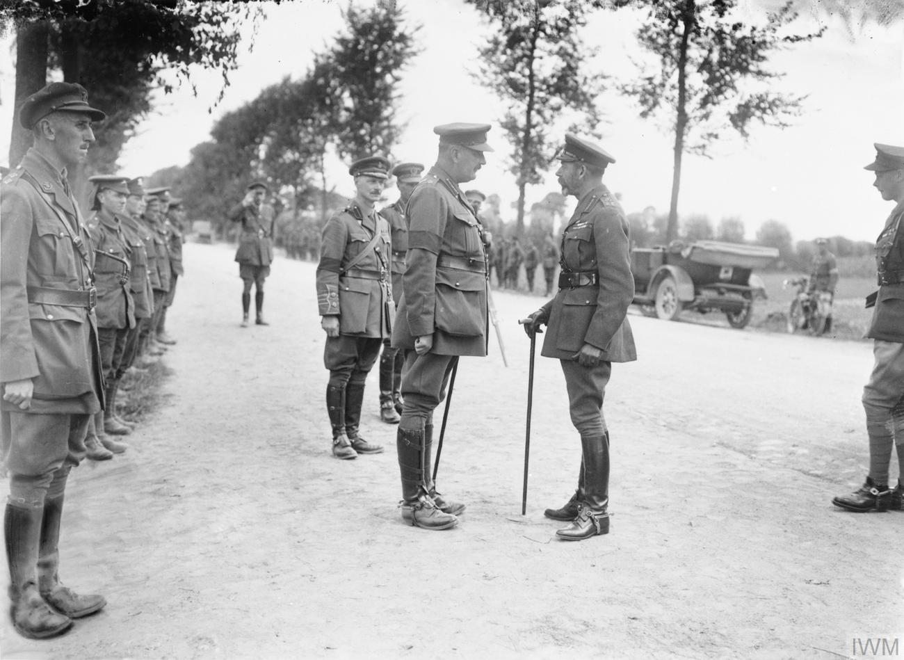 King George V conversing with Major-General Charles Guinand Blackader, Commander of the 38th (Welsh) Division, at Wormhoudt, 13th August 1916. Troops of the Division are along the road.